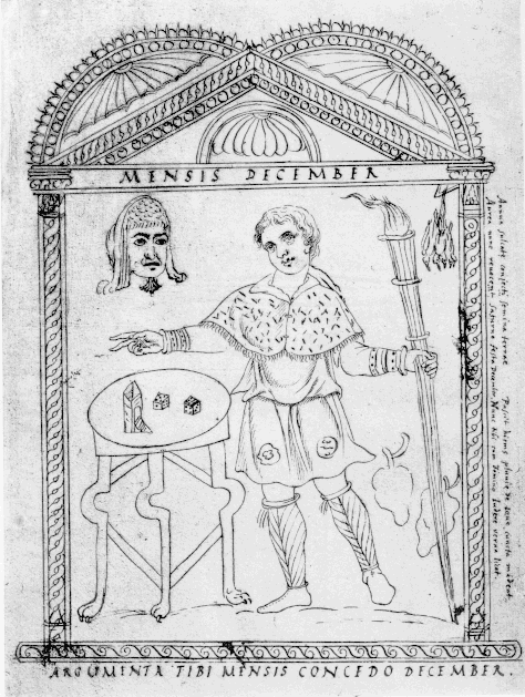 Month of December from in the Chronography of 354 by the 4th century kalligrapher Filocalus. The copies of the original illustrations are pen drawings in a 17th century manuscript from the Barberini collection (Vatican Library, cod. Barberini lat. 2154).